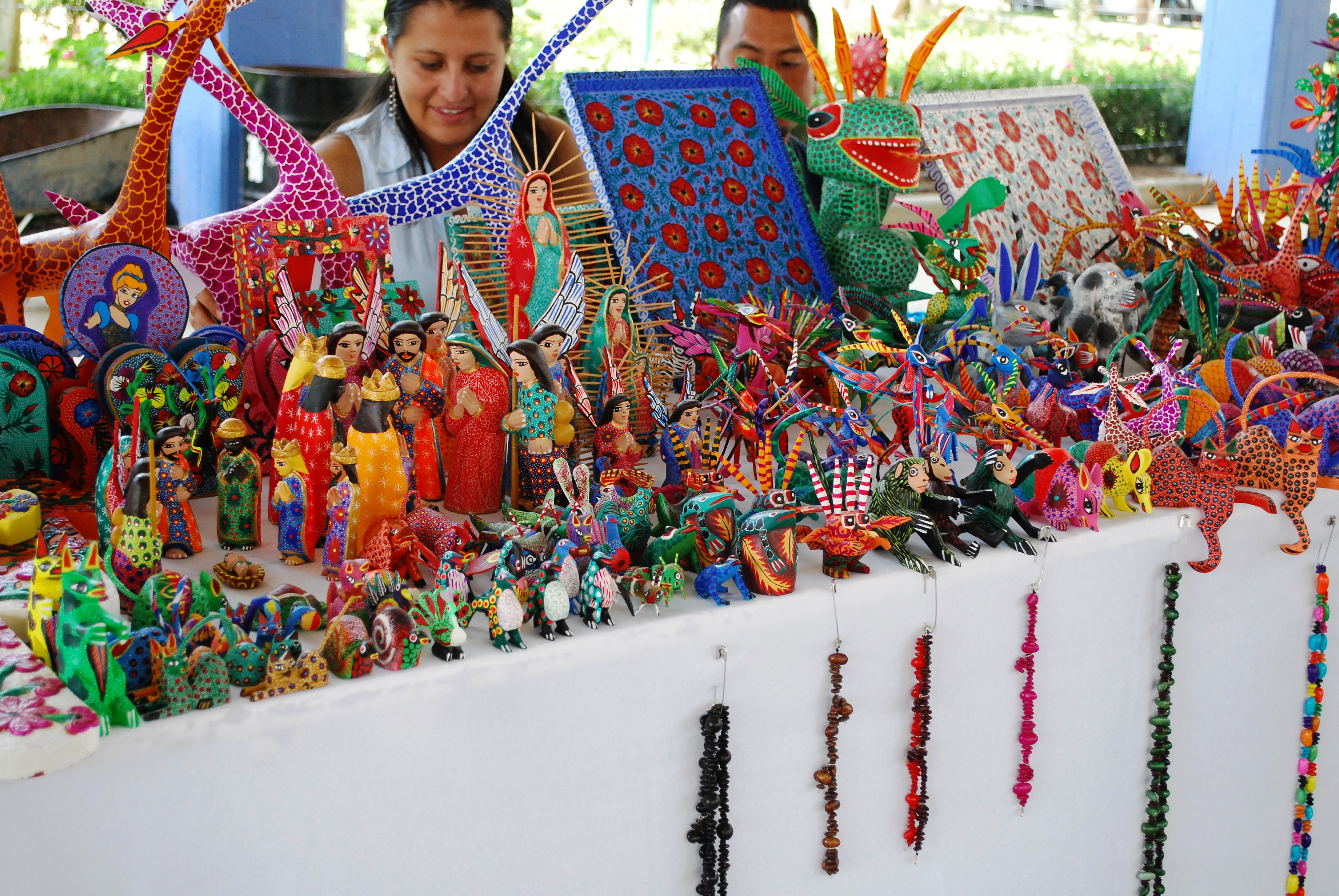 Alebrijes for sale in San Martin Tilcajete, Oaxaca, Mexico